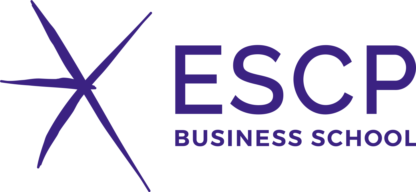 ESCP Business School Logo